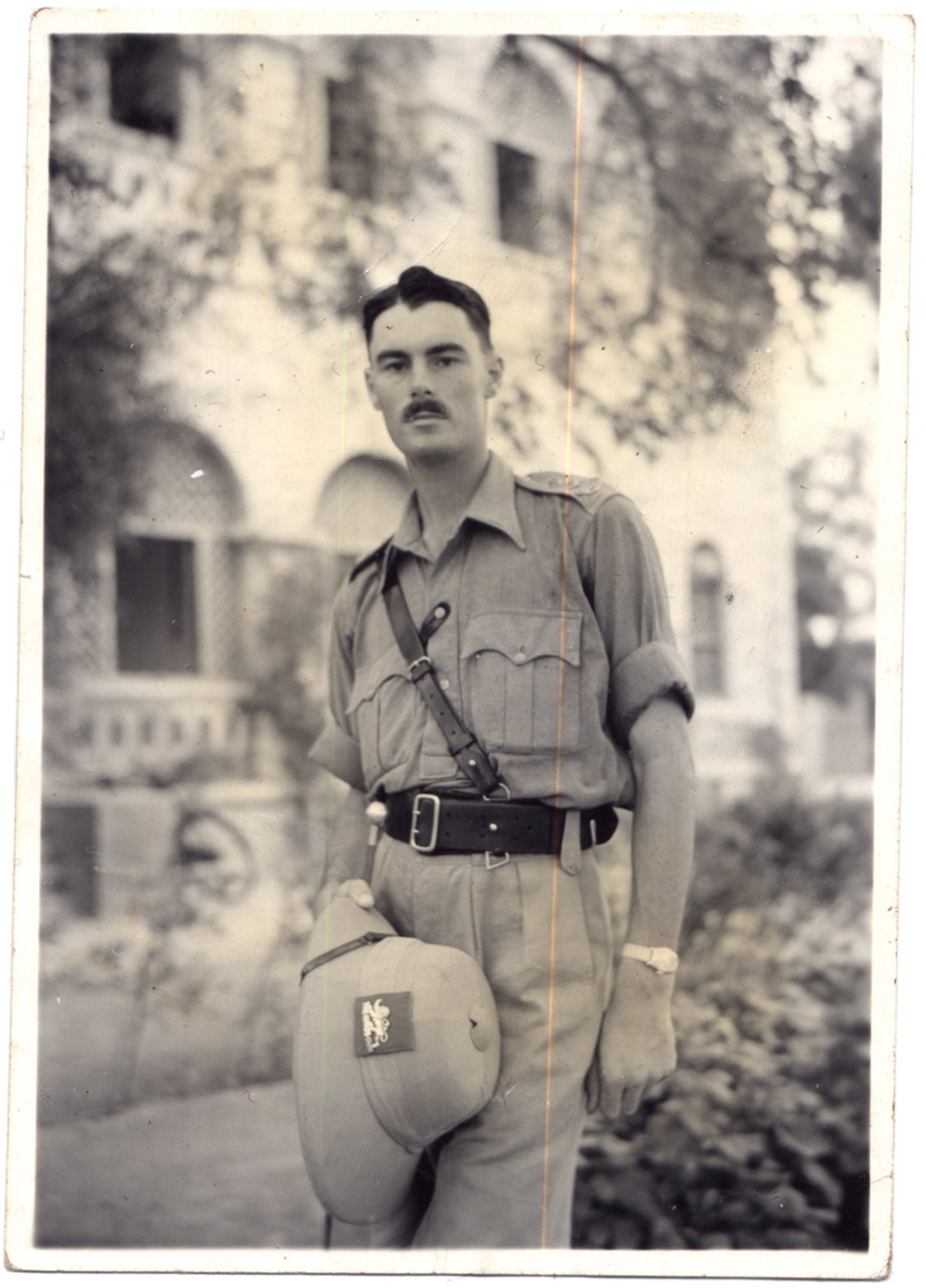 Photograph of Major John Pott at College. Given for use in article by David Pott, son of Major John Pott.